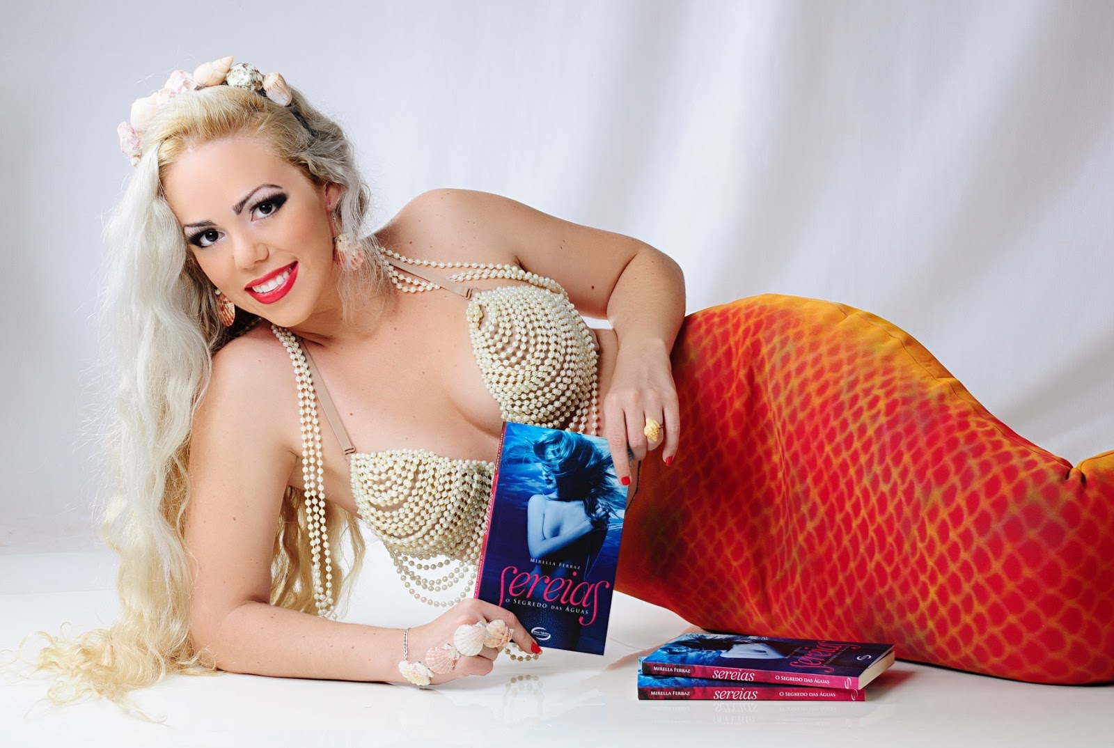 Author Mirella Ferraz and your book.